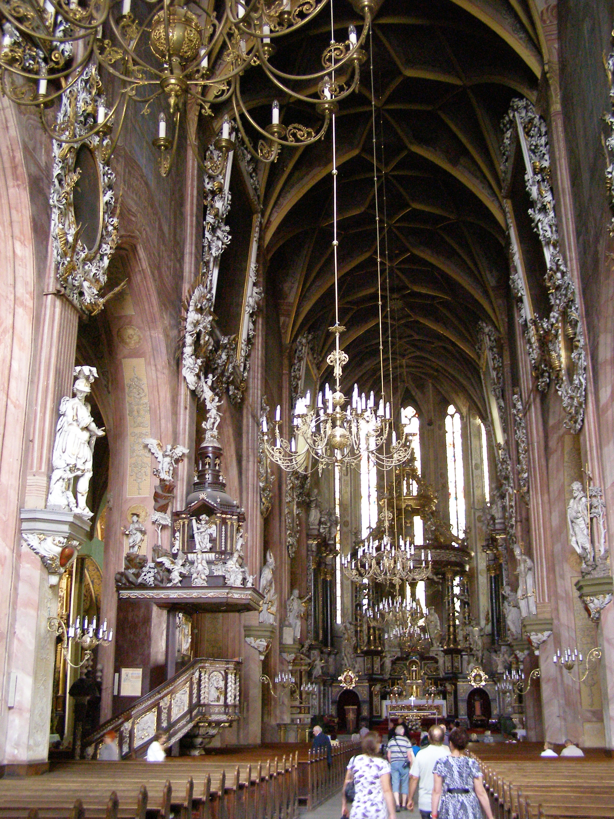 Świdnica - cathedral